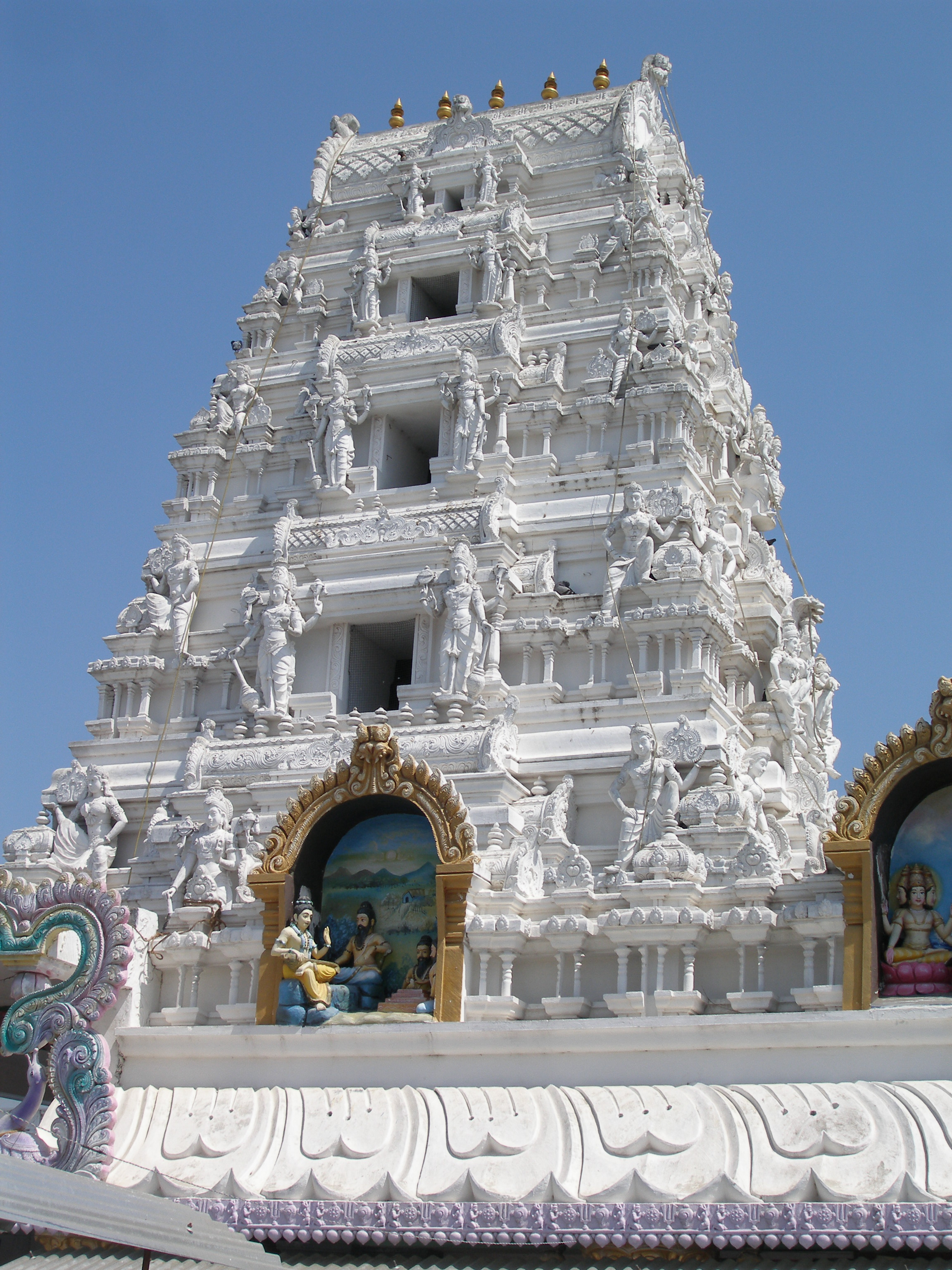 Narayana Tirumala, temple main gopuram.